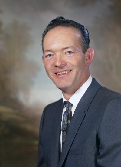 Senator Lowell Peterson, 1967